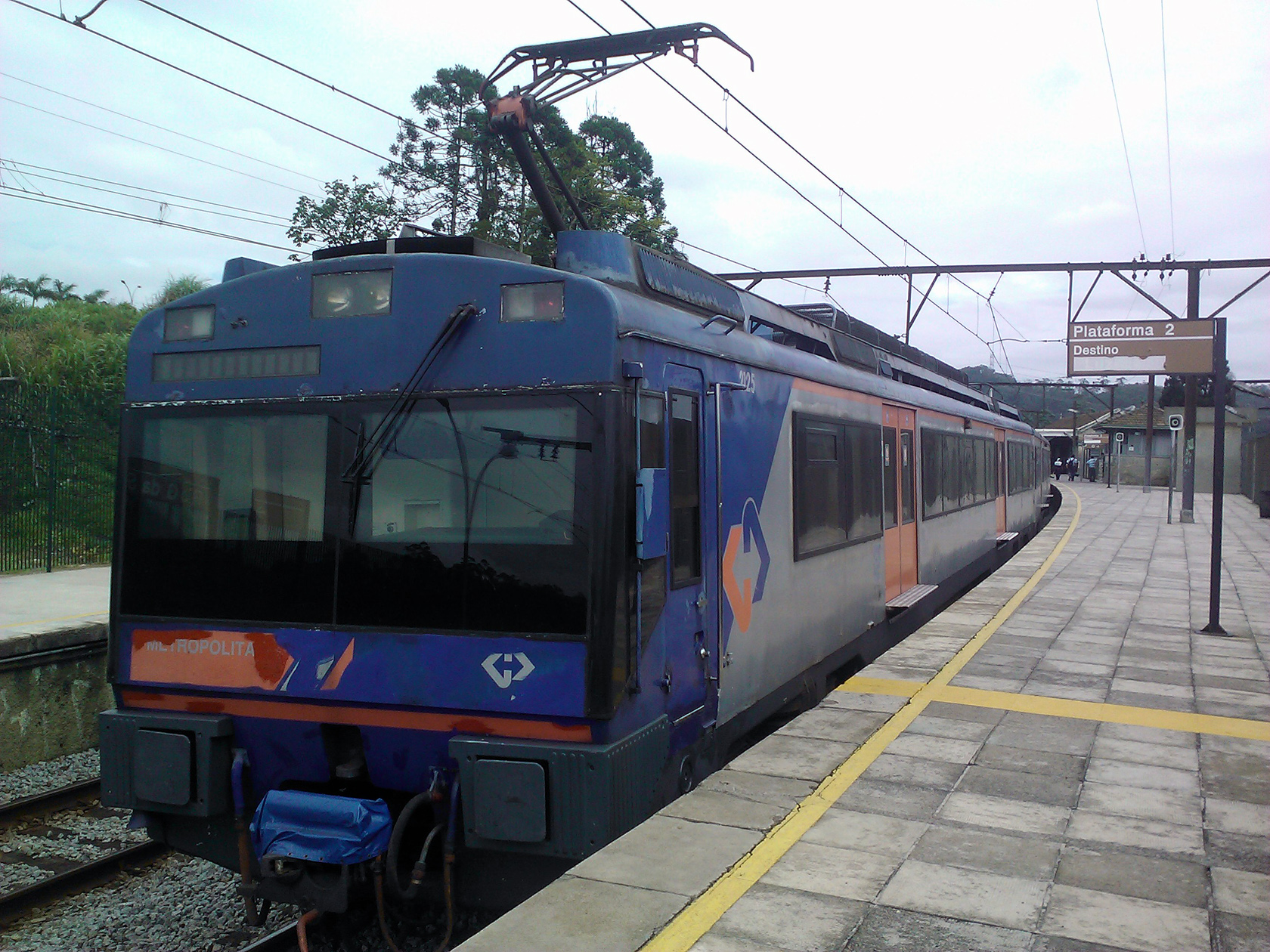 An UT-440R on duty while waiting for a complete overhaul and new corporate livery. Rio Grande da Serra (Greater Sao Paulo Area), Brazil.